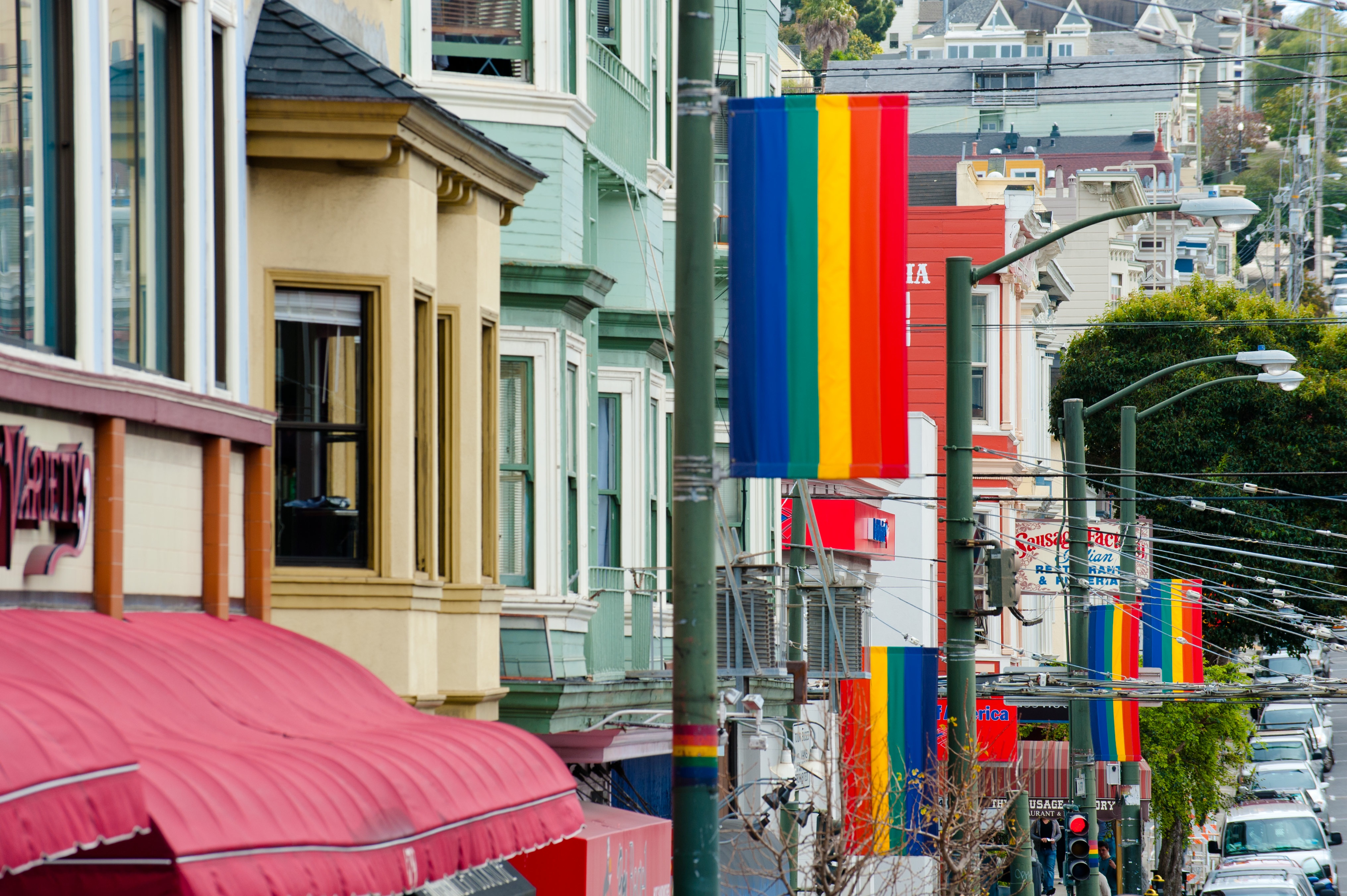 The Castro